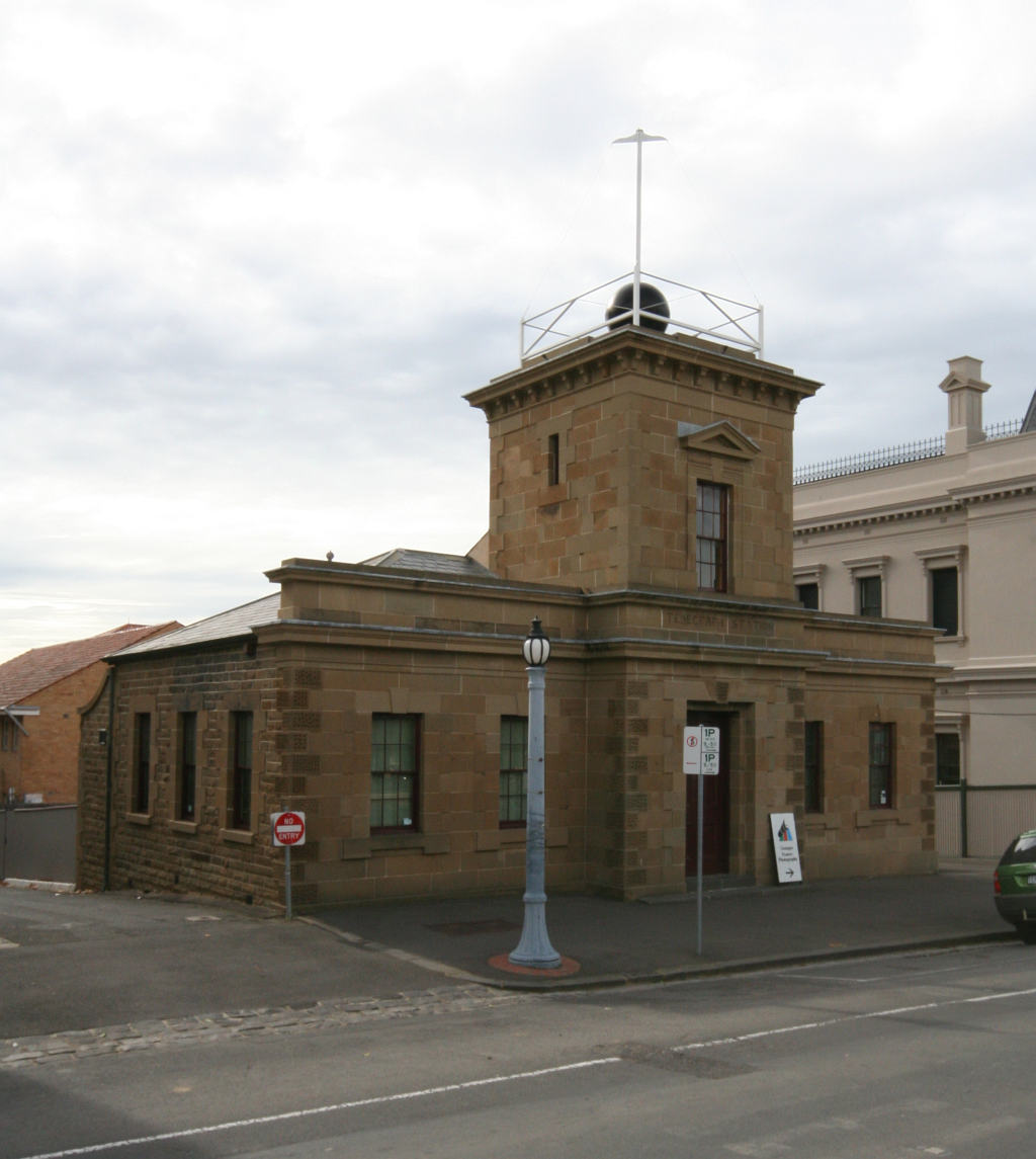 Telegraph Station - Geelong Victoria Australia